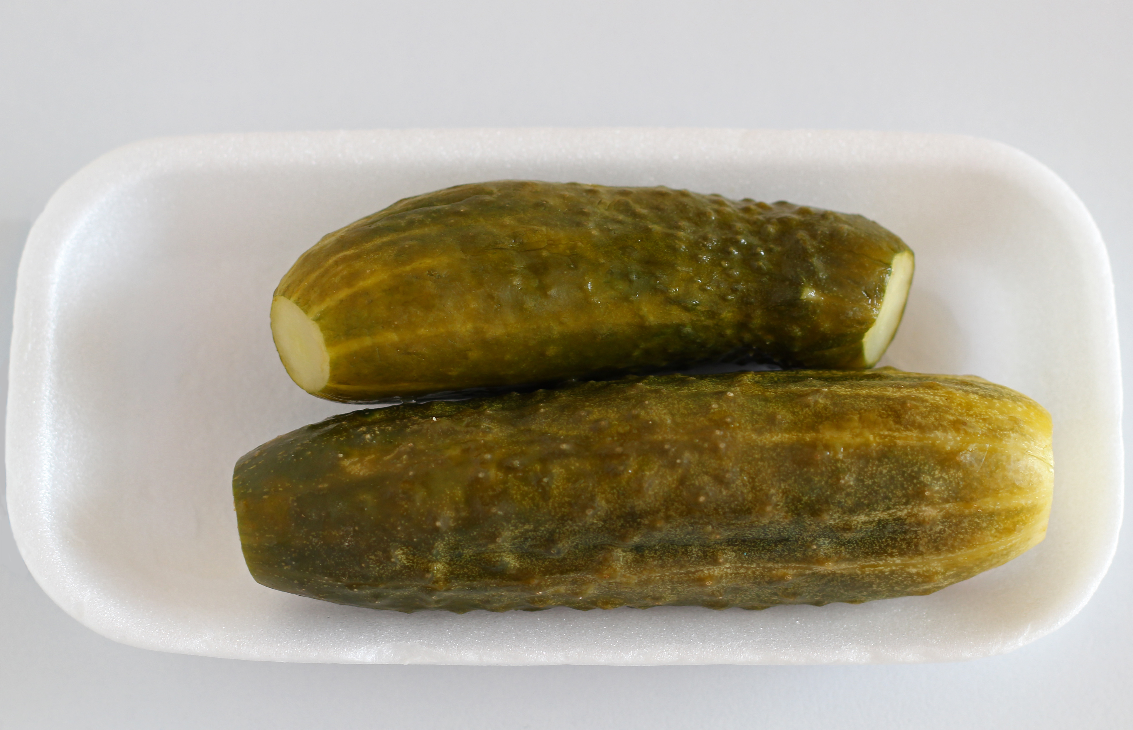 A couple of so-called «few pickled» (malosolnye) cucumbers from a Russian supermarket.